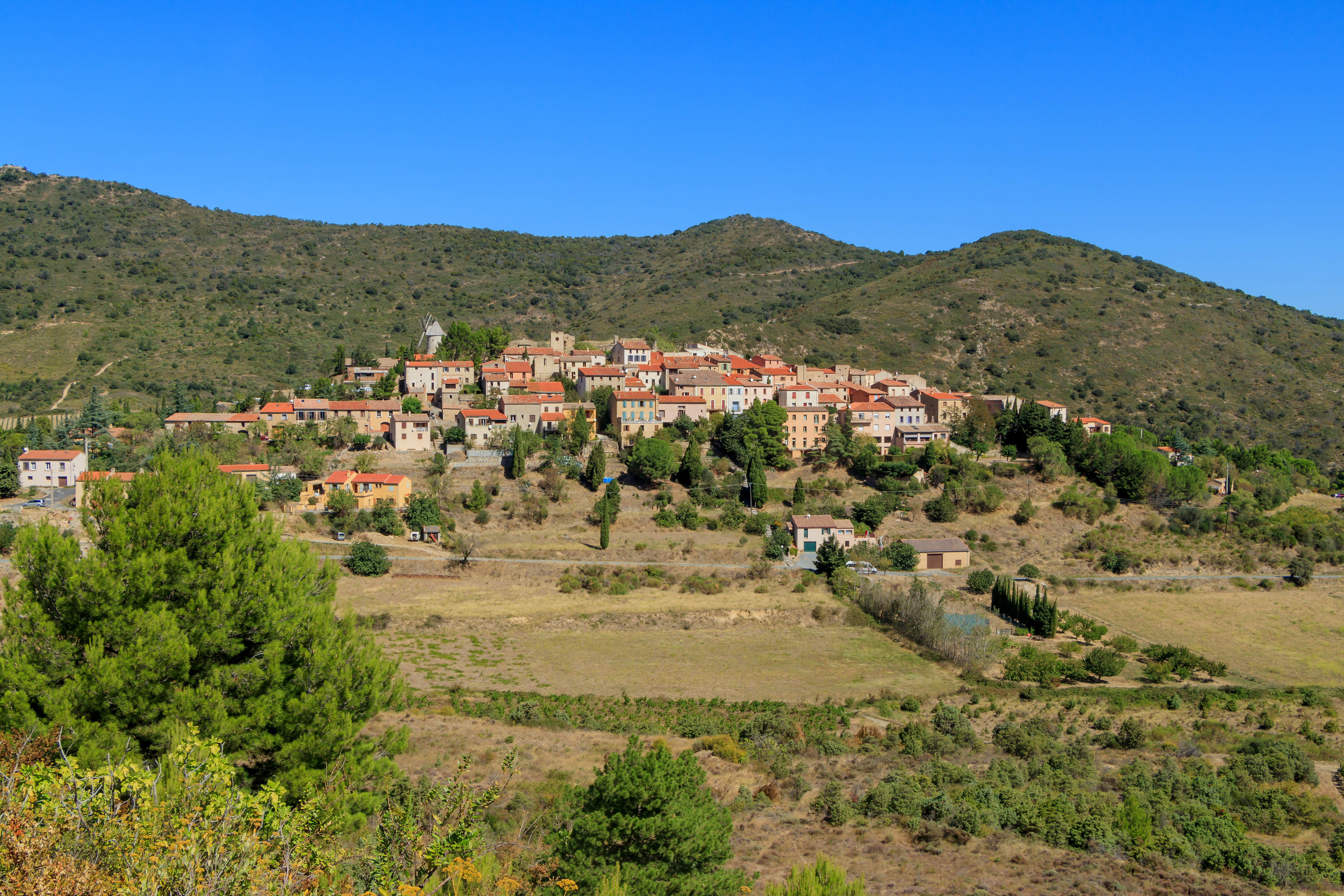 View from south on Cucugnan, Département Aude, France